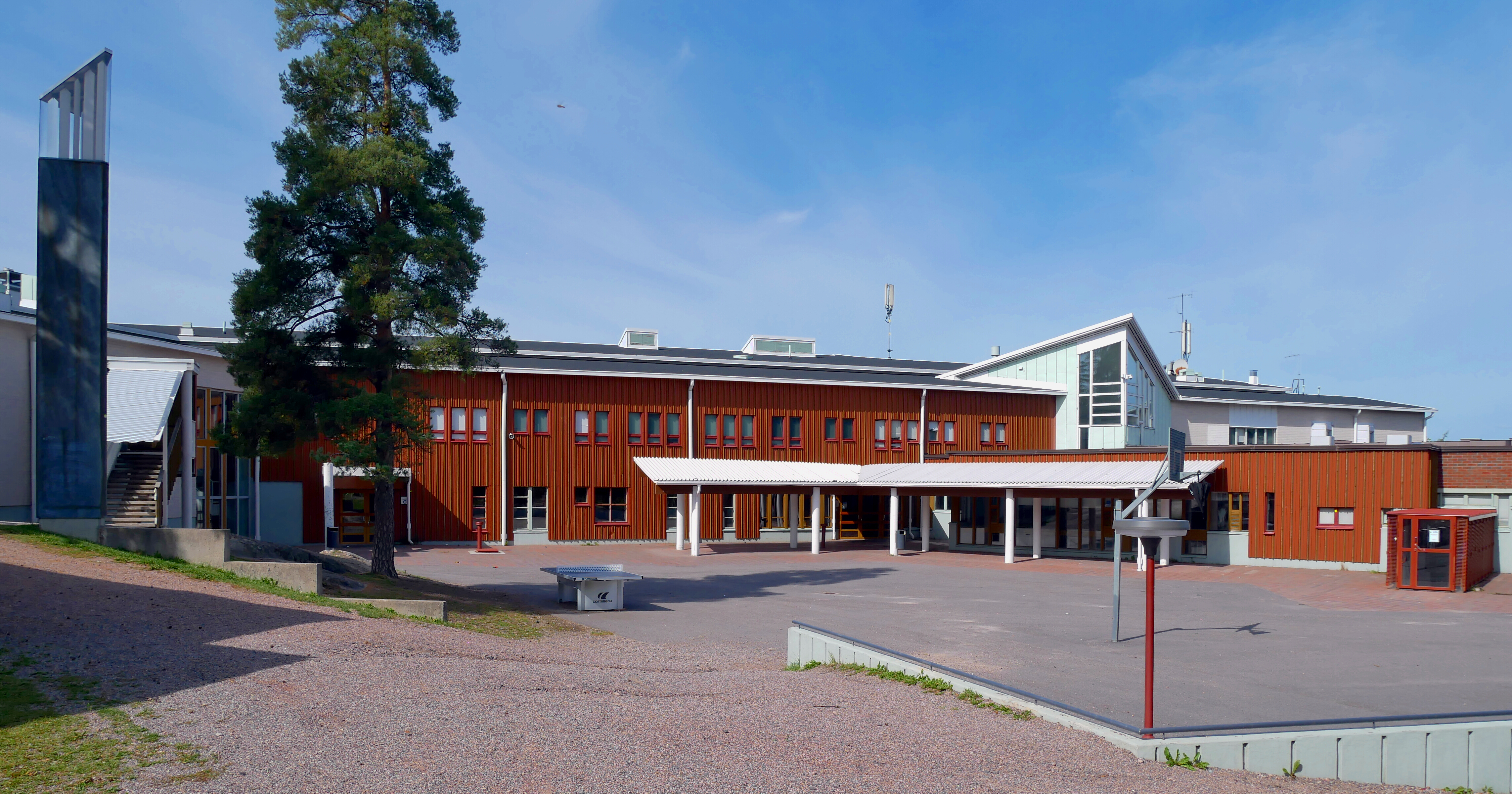 The Nöykkiö School in Nöykkiö, Espoo, Finland